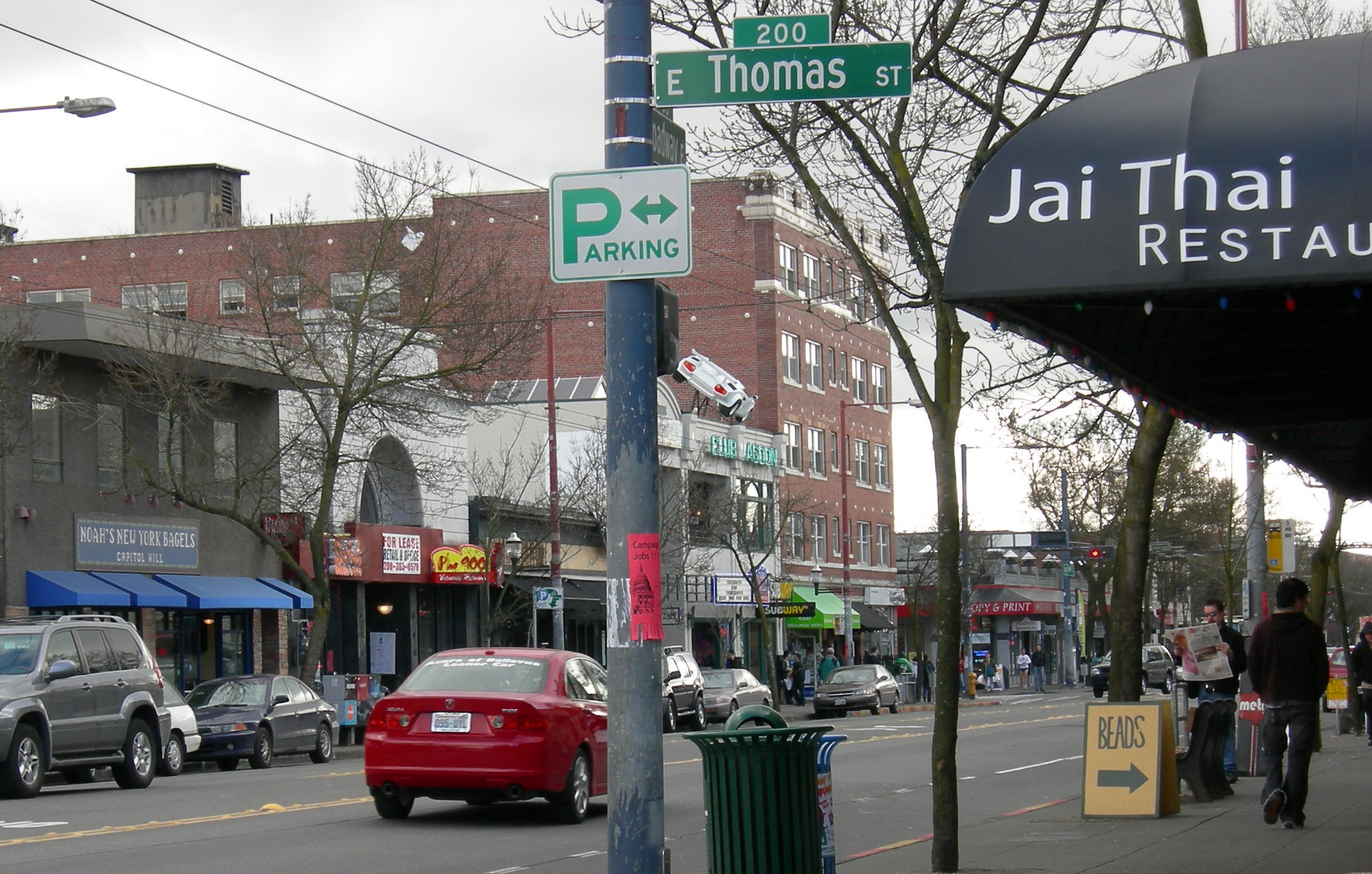 Looking south on Broadway from the corner of Thomas; Capitol Hill, Seattle, Washington.